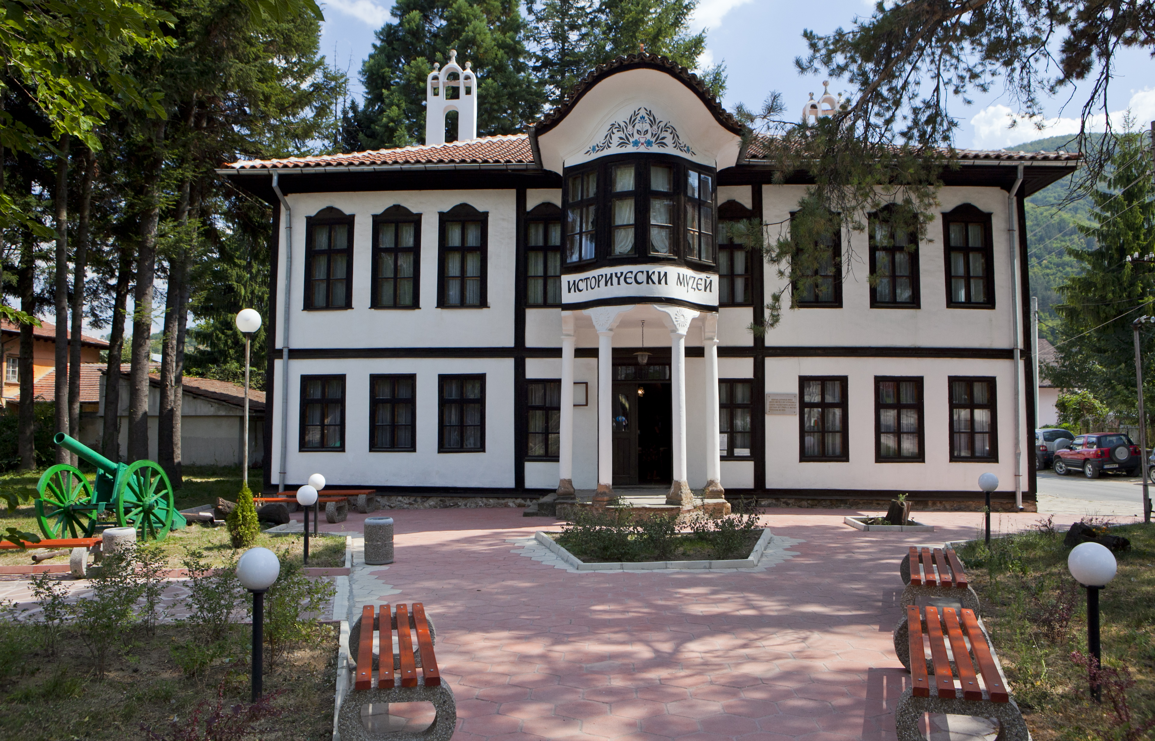 Исторически музей